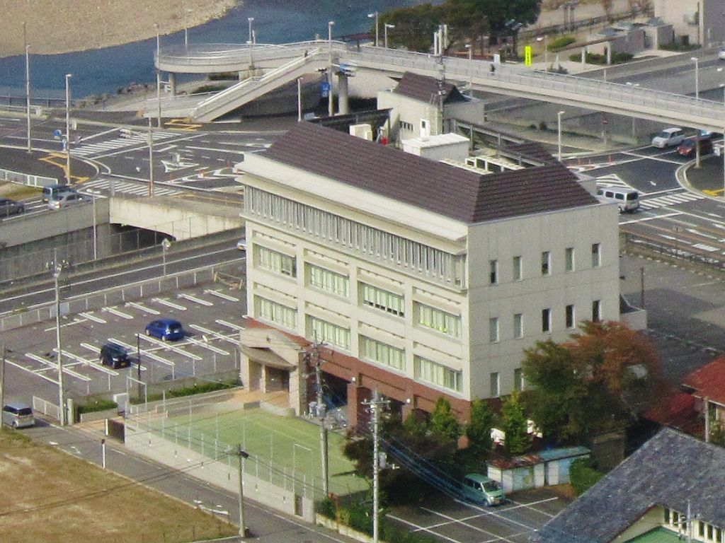 Gakugeikan High School, view from Takasaki city office.